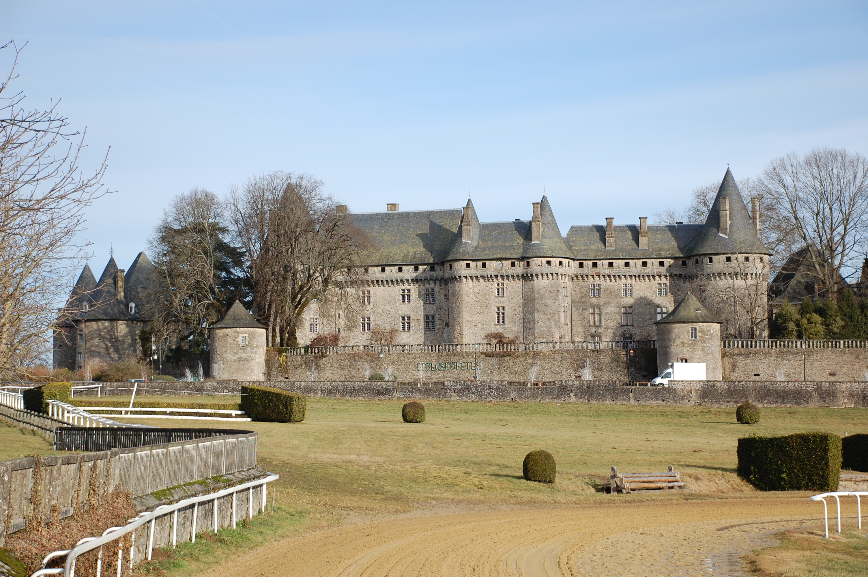 Arnac-Pompadour Castle - View from the racetrack